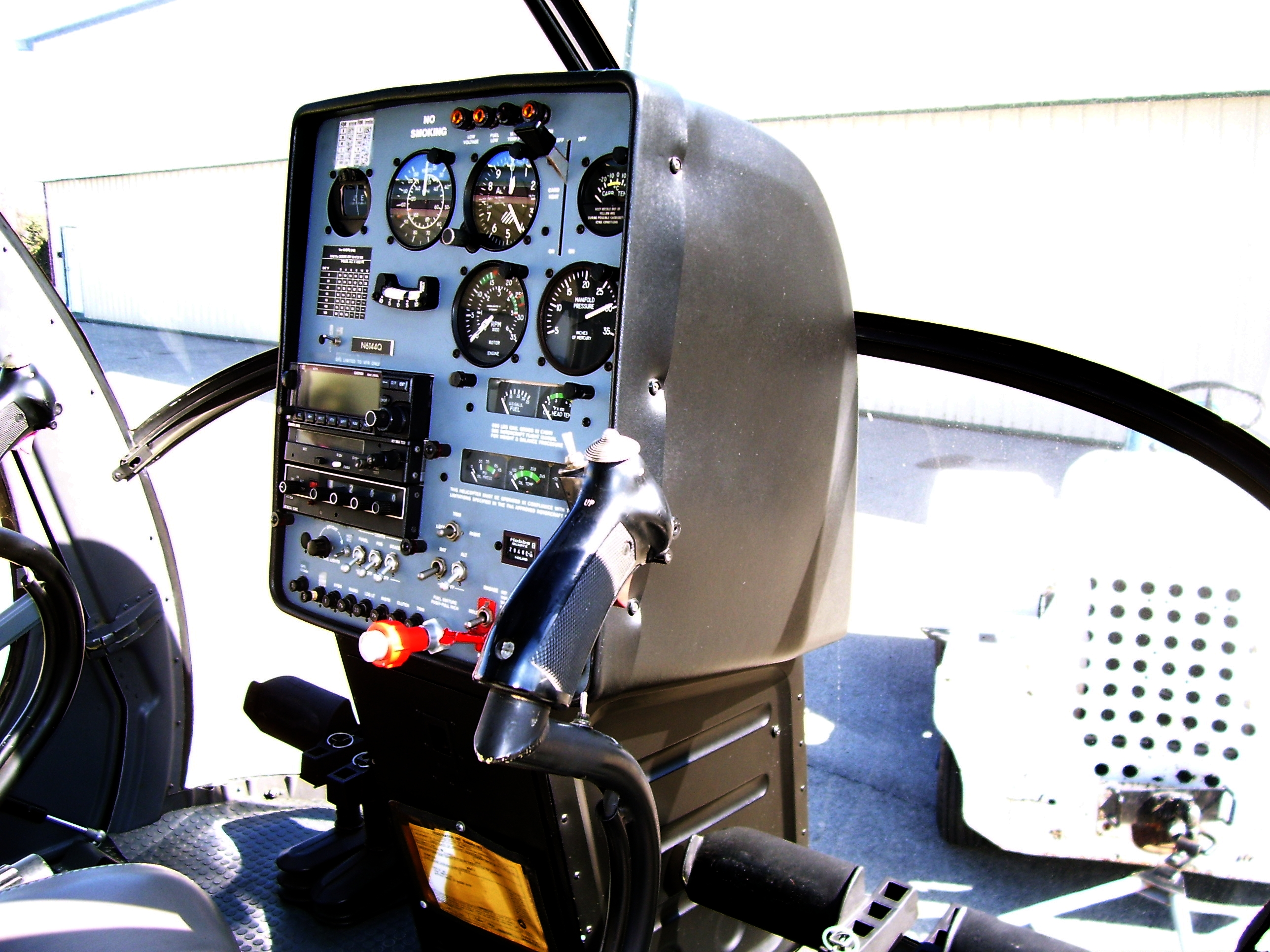 Schweitzer 300CB Picture taken by Andrew Borrows, March 2006. Released into the public domain